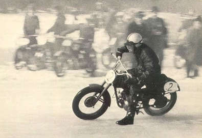 Jarno Saarinen on ice in 1963.